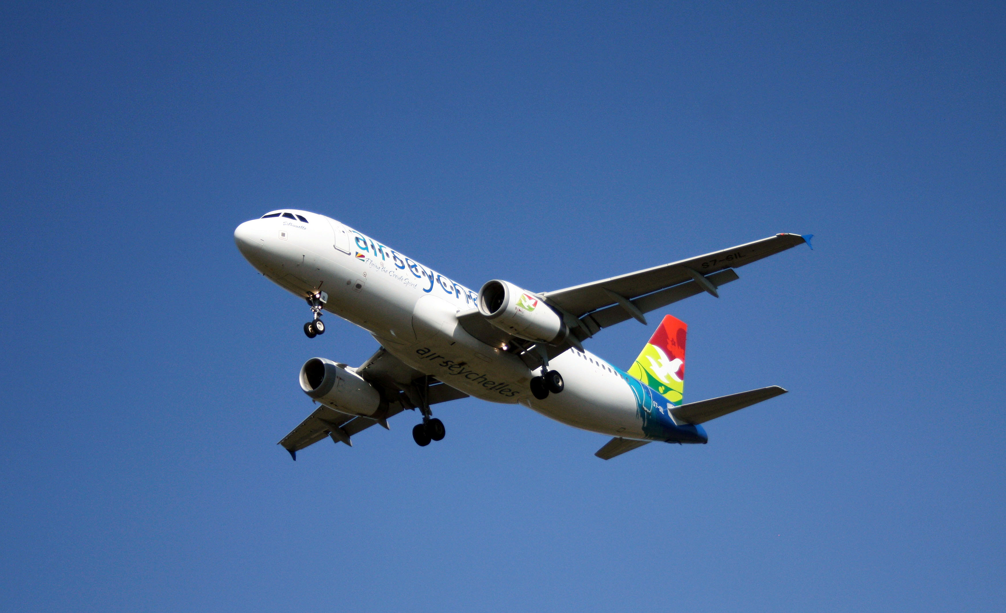 Air Seychelles A320-232 S7-SIL on final approach at Durban Airport